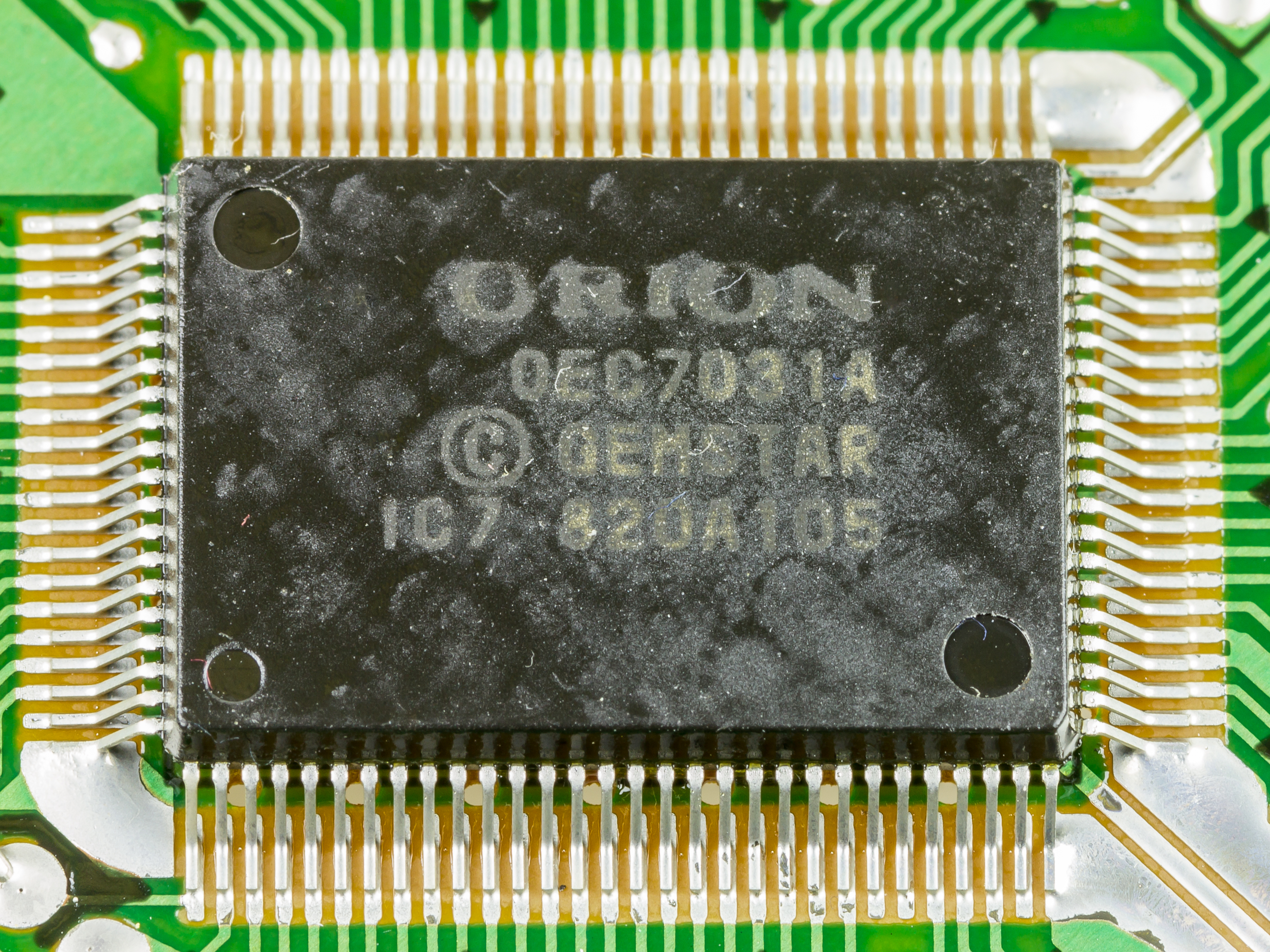 Medion MD8910 - Orion OEC7031A Gemstar